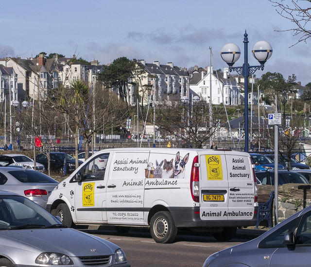 Assisi Animal Sanctuary ambulance parked on Queen's Parade in Bangor, Co Down, Ireland This image was taken from the Geograph project collection. See this photograph's page on the Geograph website for the photographer's contact details. The copyright on this image is owned by Rossographer and is licensed for reuse under the Creative Commons Attribution-ShareAlike 2.0 license. Attribution: Rossographer